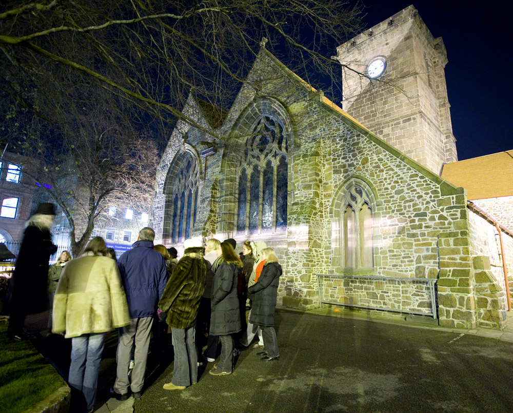 Ghost Walk. La Fête dé Noué: The Island is lit up with a full programme of activities in the run up to Christmas. St. Helier has a canopy of brilliant white lights and lots of events and street entertainment takes place during the late night shopping hours. Take a look at what went on in 2008.